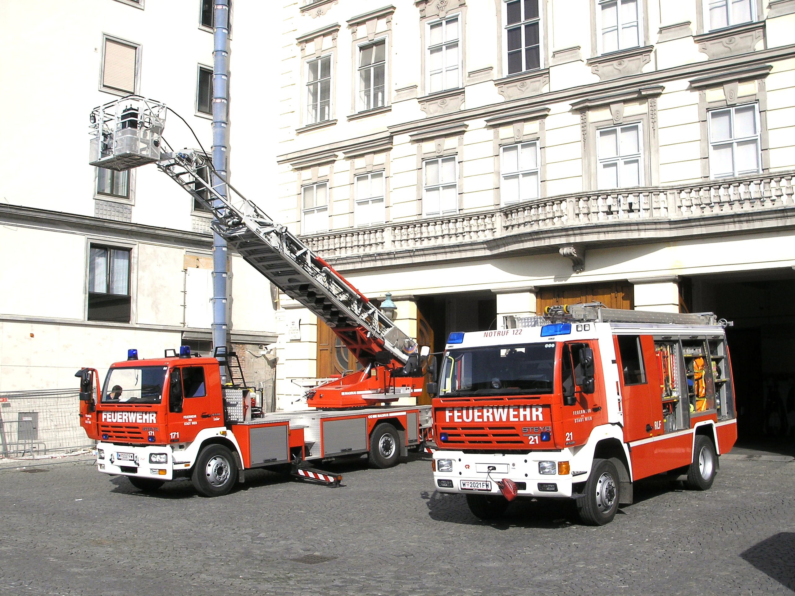 Two MAN-based Steyr NMK trucks for fire-fighting, parked outside the firestation at Am Hof, Vienna. In the foreground a 14S28 and behind a newer 15S28 (6871cc, 280 PS).